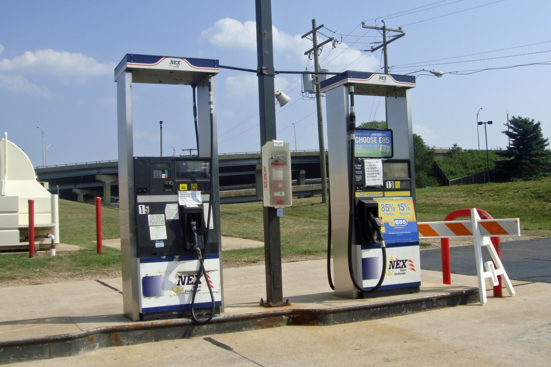 Biofuel pumps (B20, left, and E85, right) at a gasoline station near Pentagon City, Arlington, Virginia